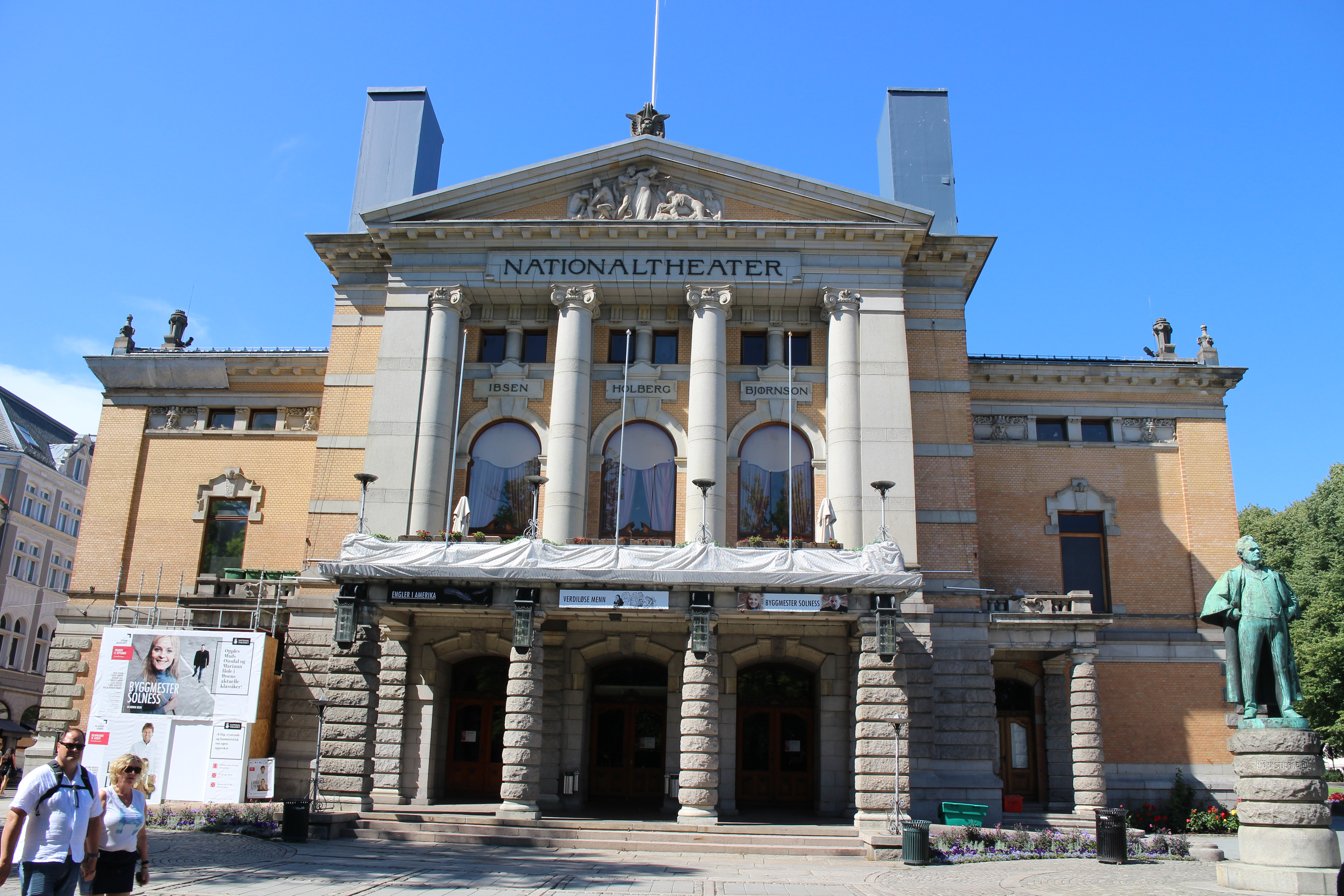 Nationaltheatret